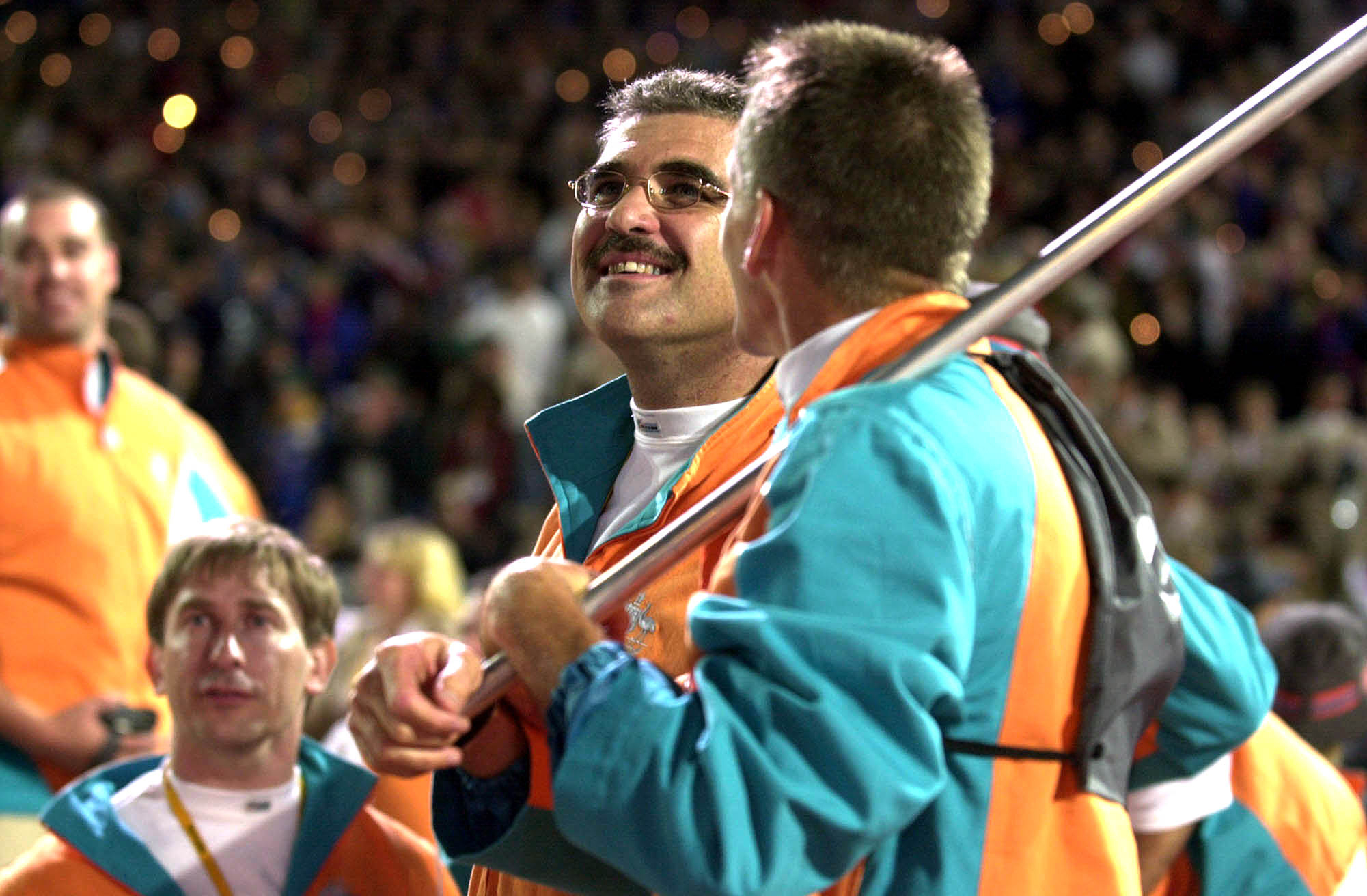 Close up of Australian Team Chef de Mission Paul Bird looking upwards, excited and happy, in the Athletes Parade at the Sydney Paralympic Games Opening Ceremony. Seen infront of Bird is flag bearer Brendan Burkett; seen behind Bird is wheelchair basketballer Sandy Blythe.